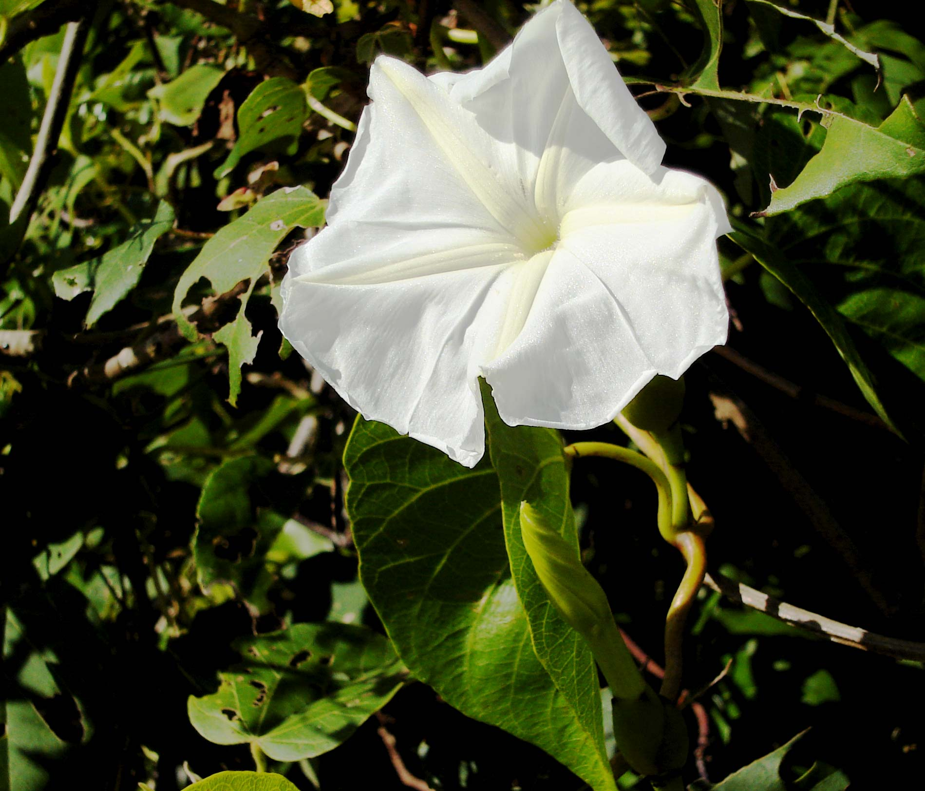 Ipomoea macrantha; (fuehina) on a Tongan beach